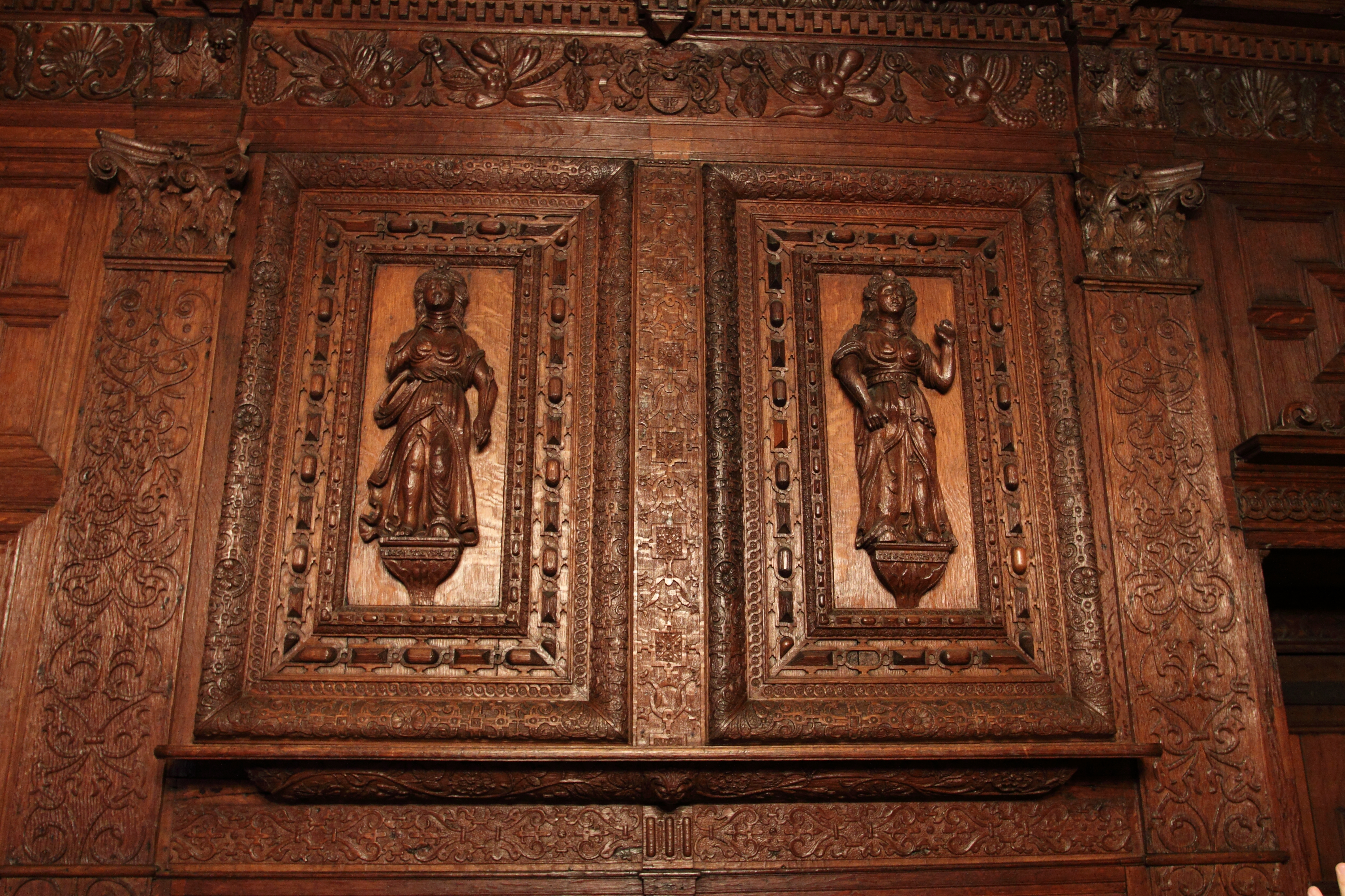 Canonbury Tower - Faith and Hope panelling in the Compton Room